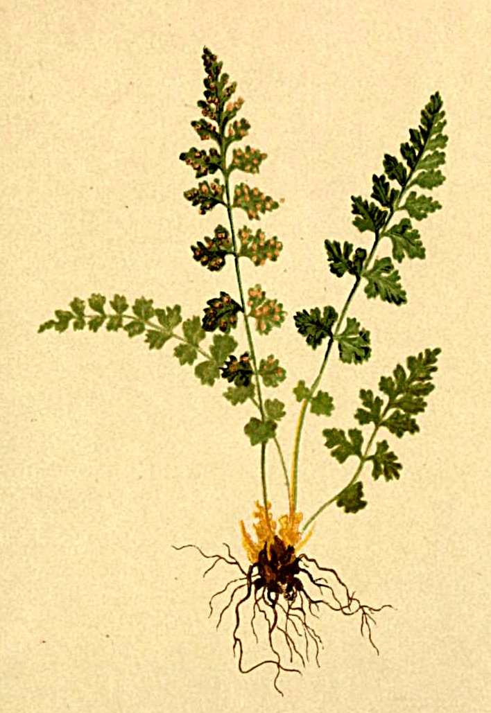 Woodsia hyperborea (Woodsia alpina)